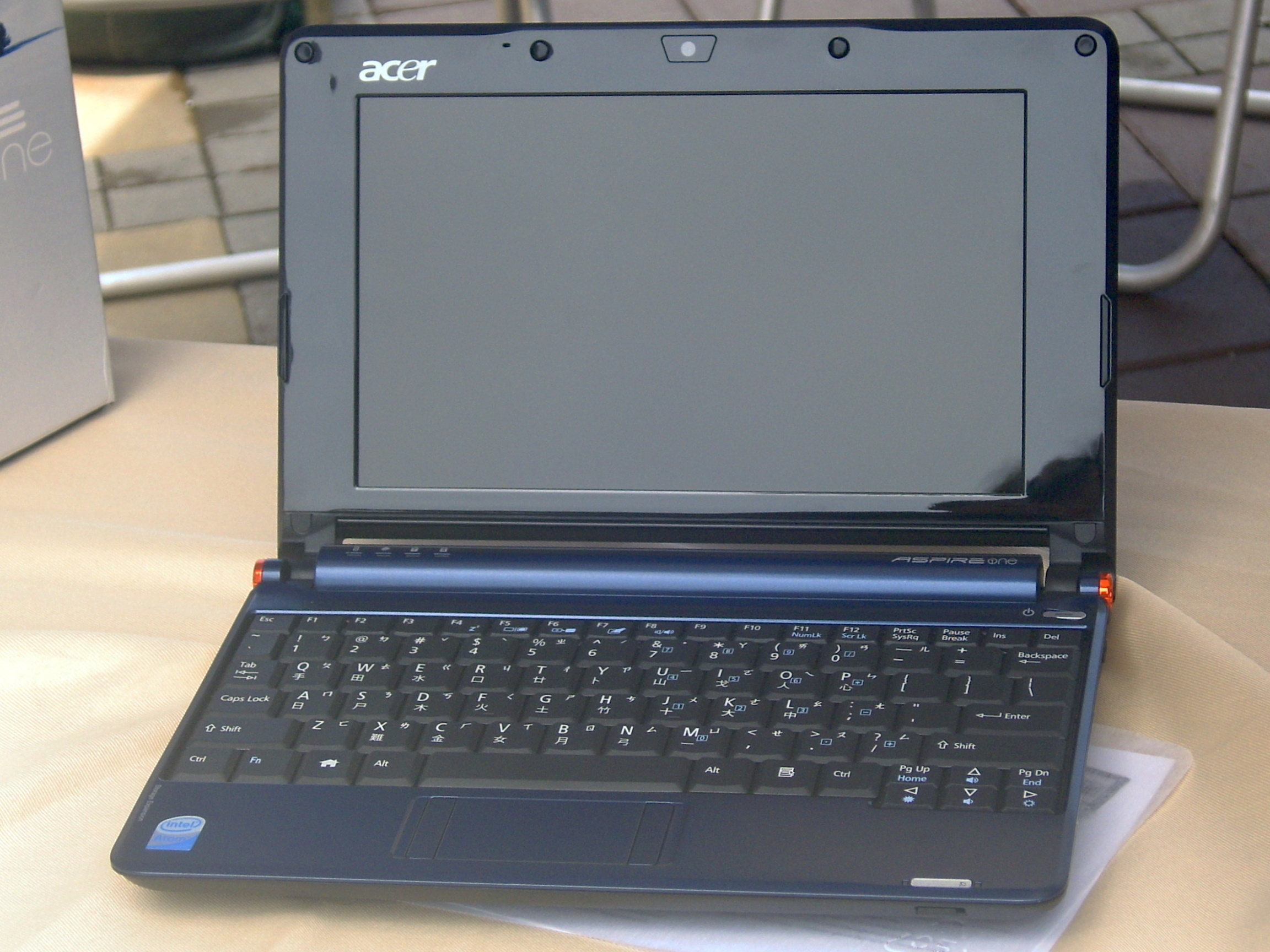 Launch of Guang Hua Digital Plaza: Acer Aspire One.